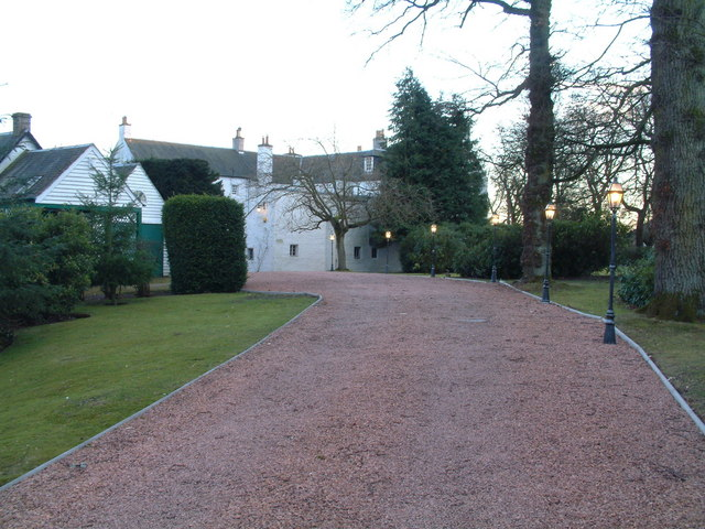 The Old Manor House. This seems to be the Auchterhouse from which the village takes its name